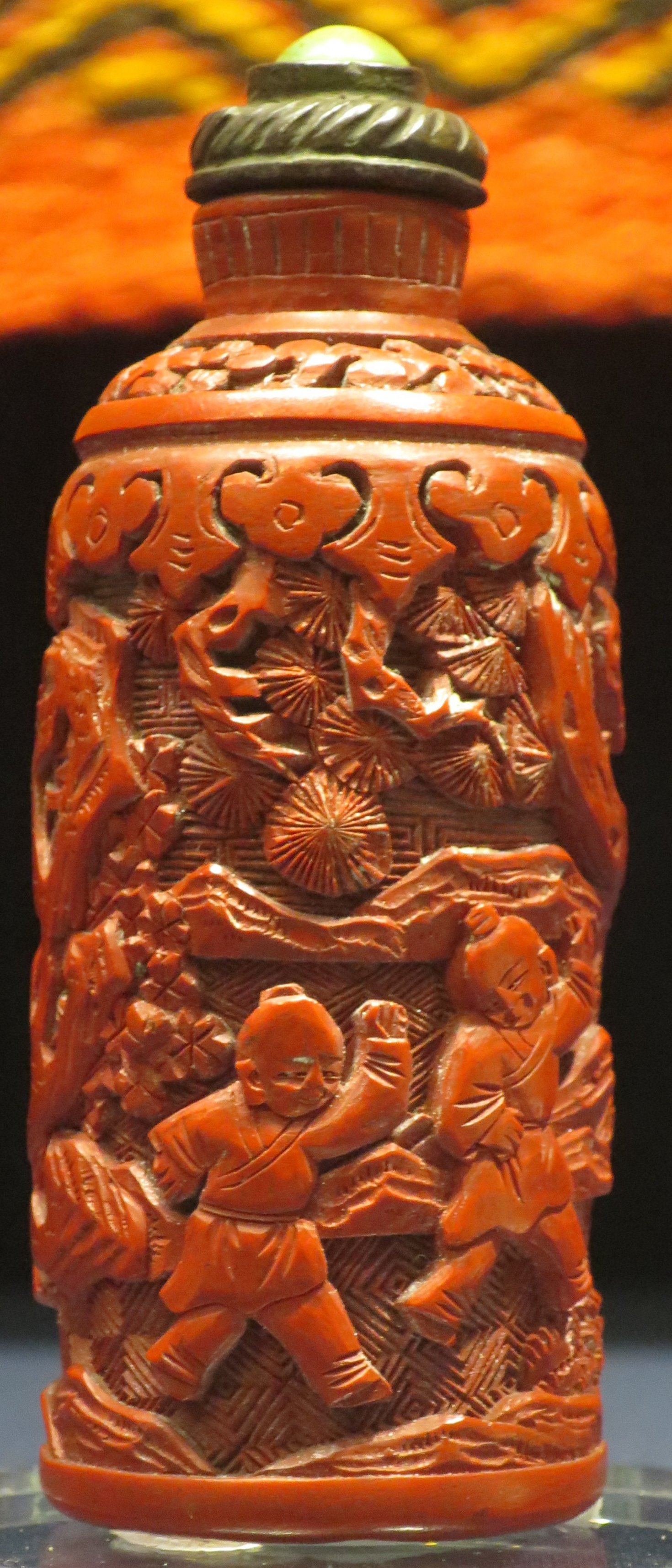 Snuff bottle from China, Qing dynasty, 19th century, carved lacquer and metal, Dayton Art Institute